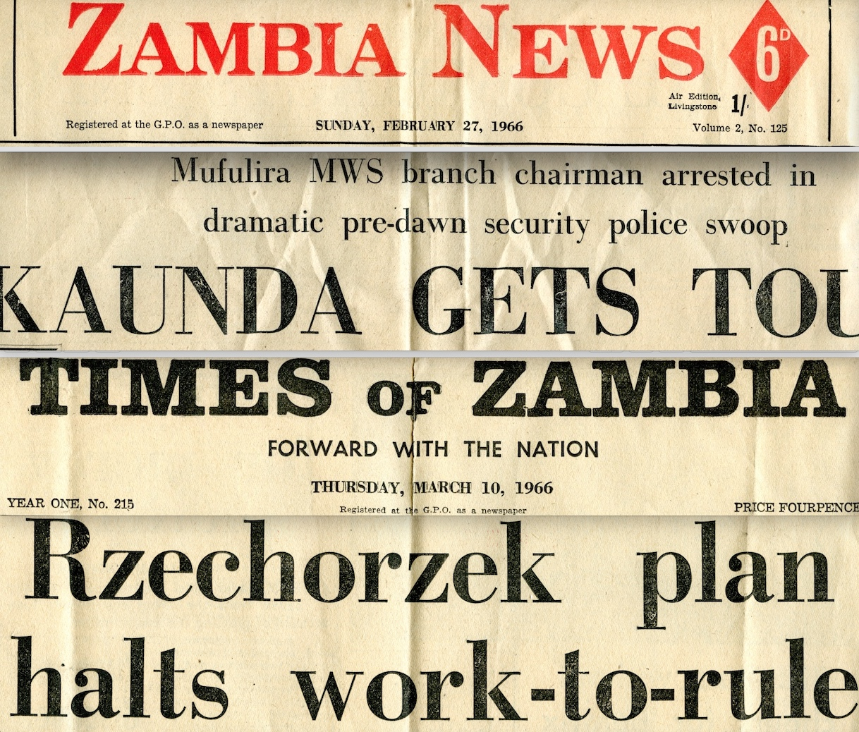 Newspaper logos and typographic samples from Zambian newspapers 1966